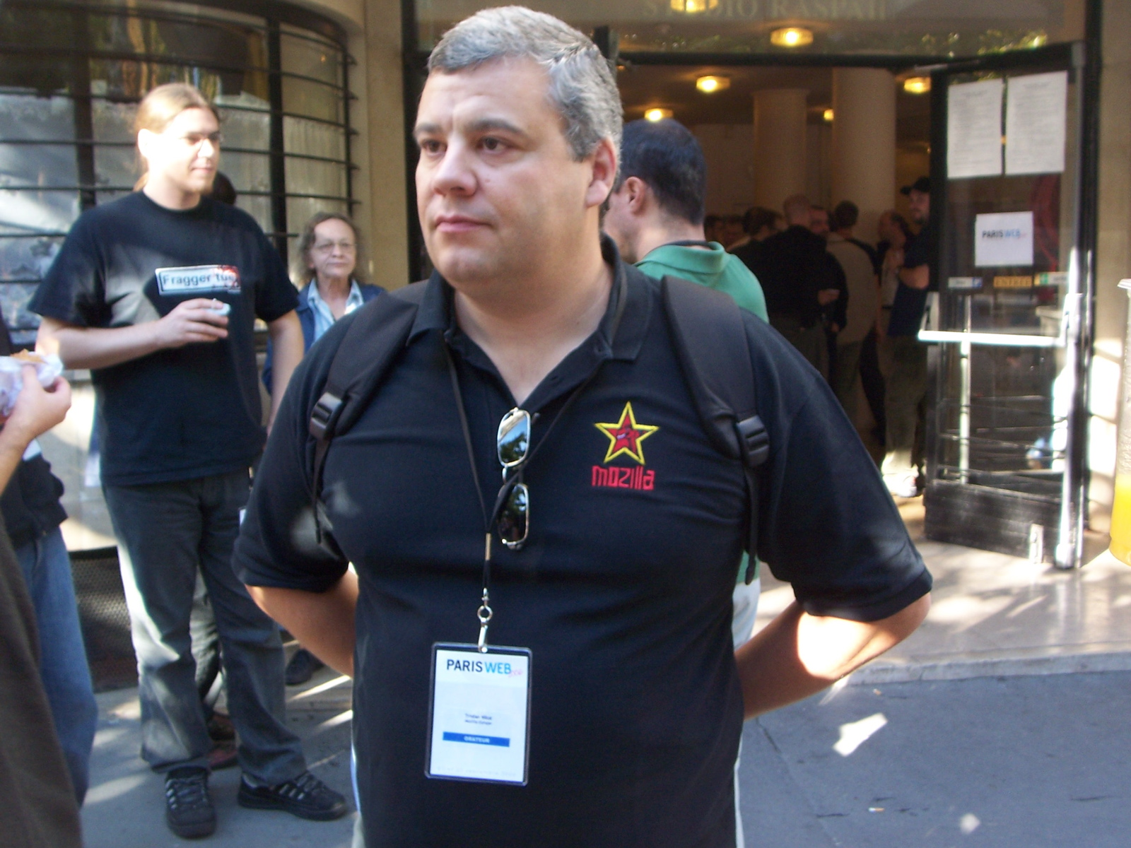 Tristan Nitot, Paris Web 2006